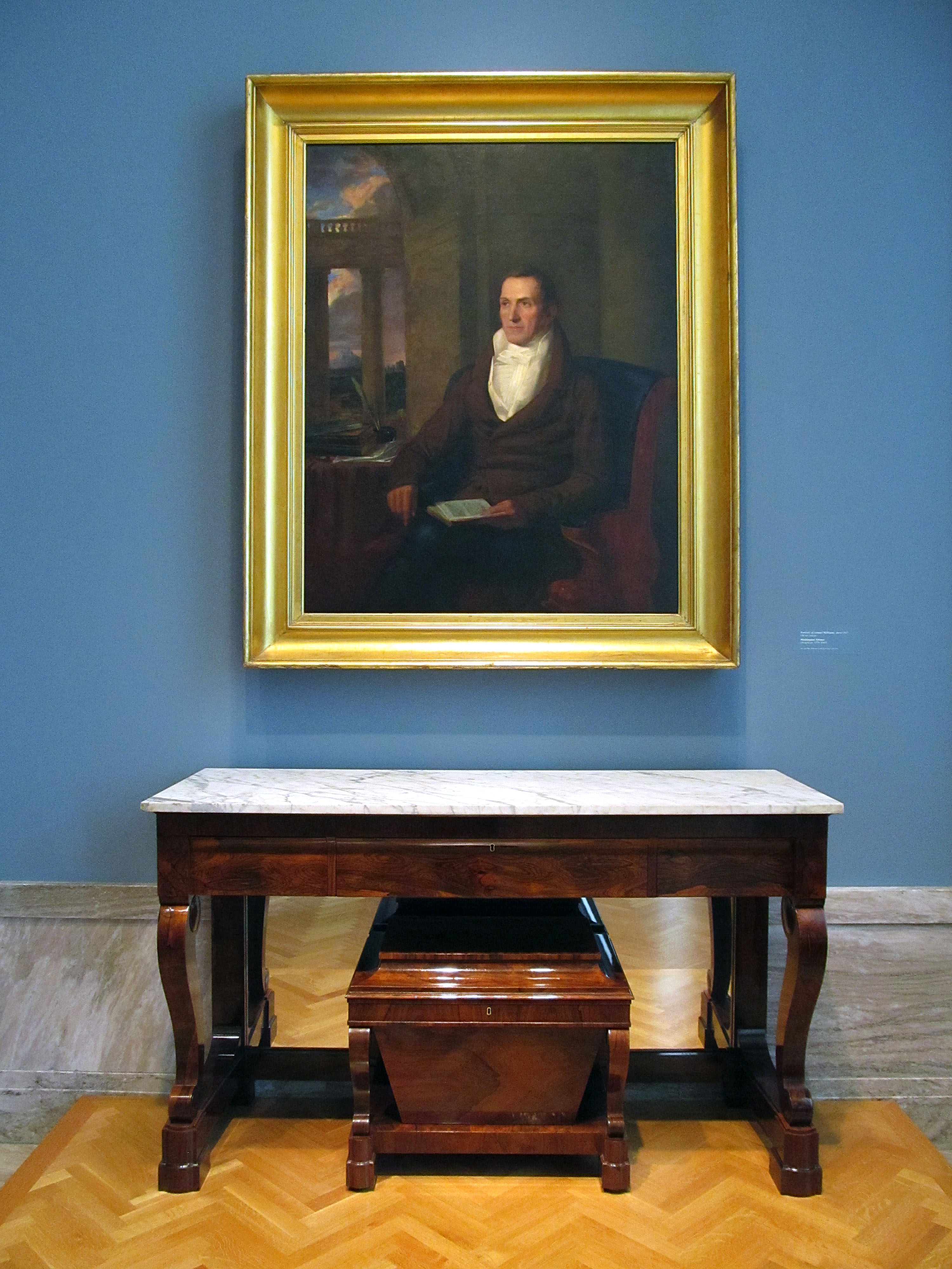 Painting of Samuel Williams by Washington Allston (circa 1817), sideboard by Duncan Phyfe and Son (circa 1840), Cellarette by Duncan Phyfe and Son (circa 1840)